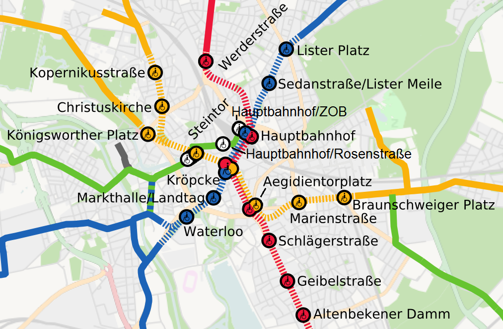 Light rail of Hannover, Germany. Downtown